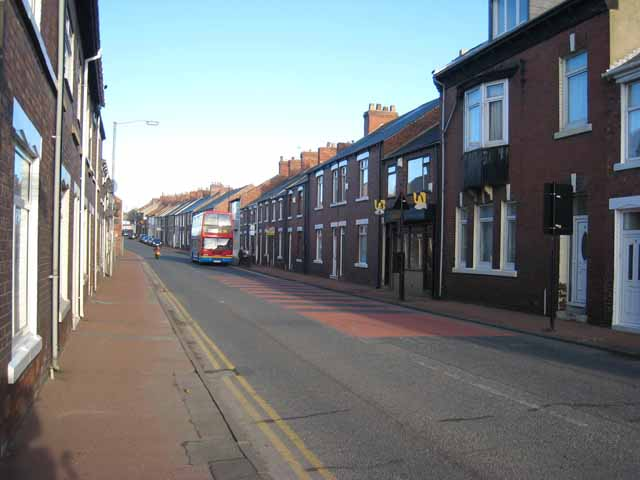 Station Road, Hetton-le-Hole On the A1052. Like so many others, the station has gone long since.